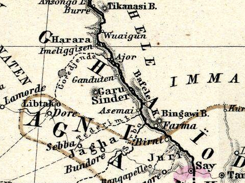 Sinder in Adolf Stielers Handatlas, 1891.